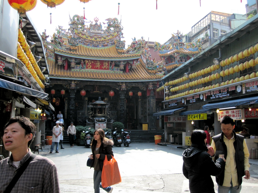 Showing Dienji Temple,it is dedicated to the deity Chen Yuanguang.The temple located on Ranshan Road in Keelung City.中文（台灣）: 奠濟宮位於基隆市仁三路，主祀開漳聖王。